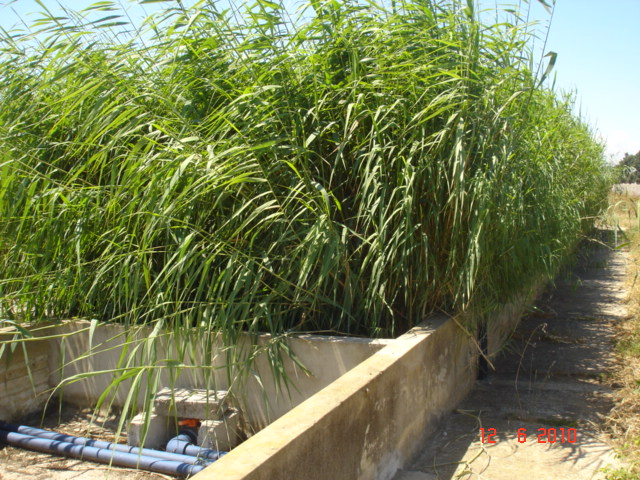 Filtres plantés à écoulement horizontal de l’IAV à Rabat. Vue d’ensemble avec filtre vertical de l’étage 1 en premier plan. A droite filtre horizontal. A noter la croissance rapide et l’augmentation de la densité des roseaux en raison de la forte concentration de l’influent et du climat méditerranéen favorable. A noter aussi la nécessité d’effectuer la coupe des roseaux et de les maintenir à une hauteur de 70 cm pour réduire l’évapotranspiration (Source Bouchaib El Hamouri, 2010)